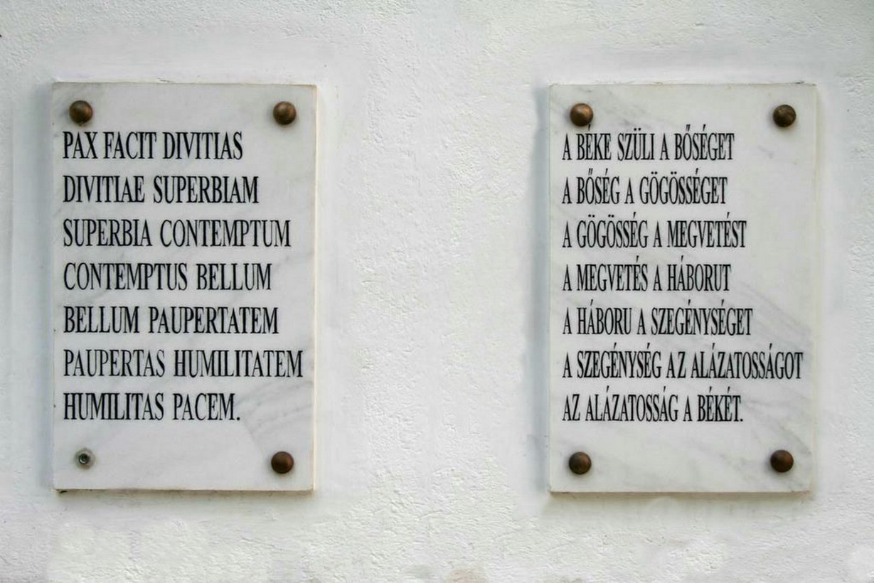 Calvinist Reformed Church (10 Bessarabia Square)